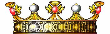 Polish nobleman crown